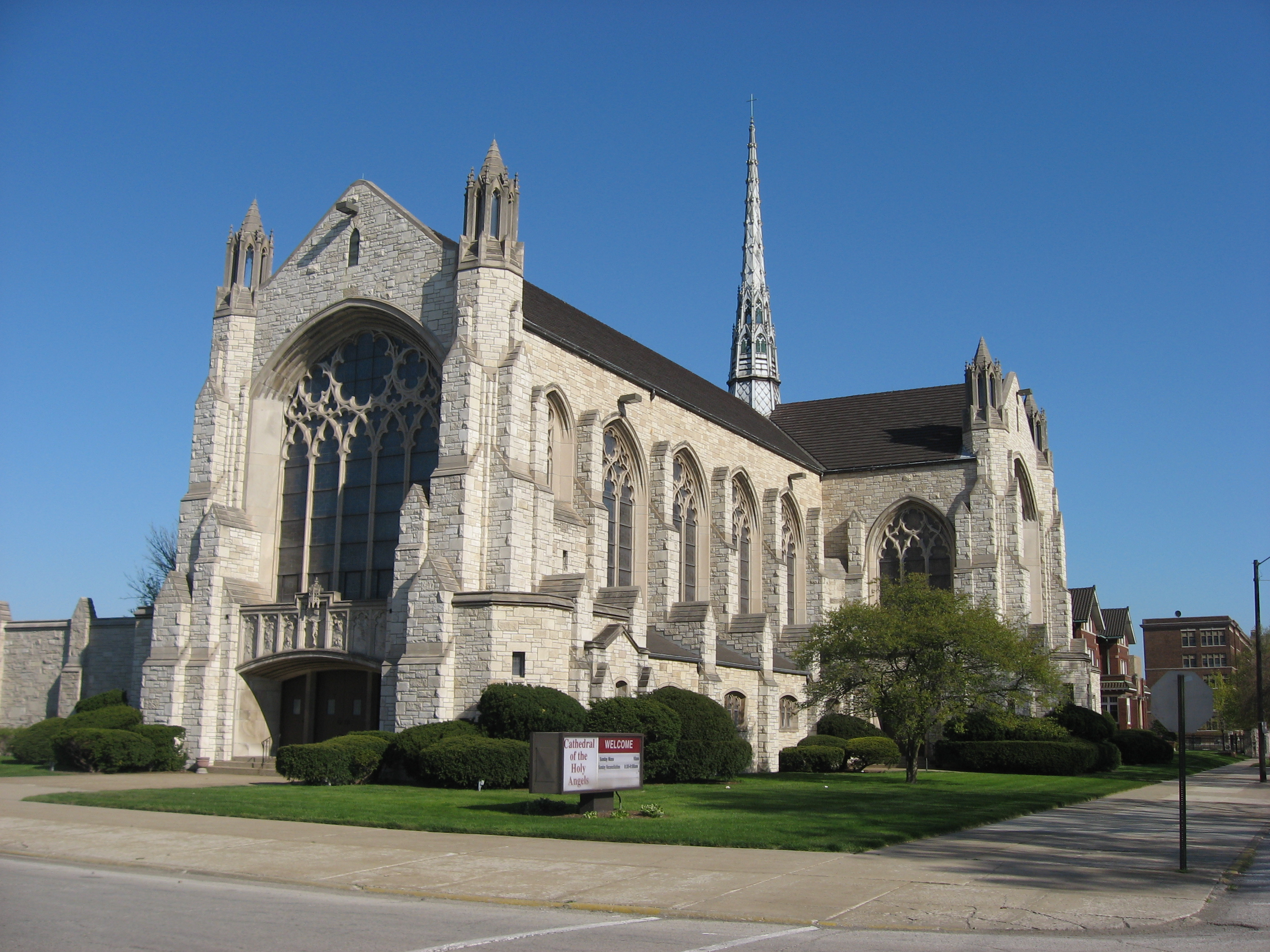 Front of the Cathedral of the Holy Angels, the cathedral church of the Roman Catholic Diocese of Gary, located at 640 Tyler Street in Gary, Gary, United States.